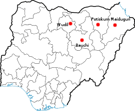 Location of the four cities in north eastern Nigeria where the Boko Haram conflict took place.